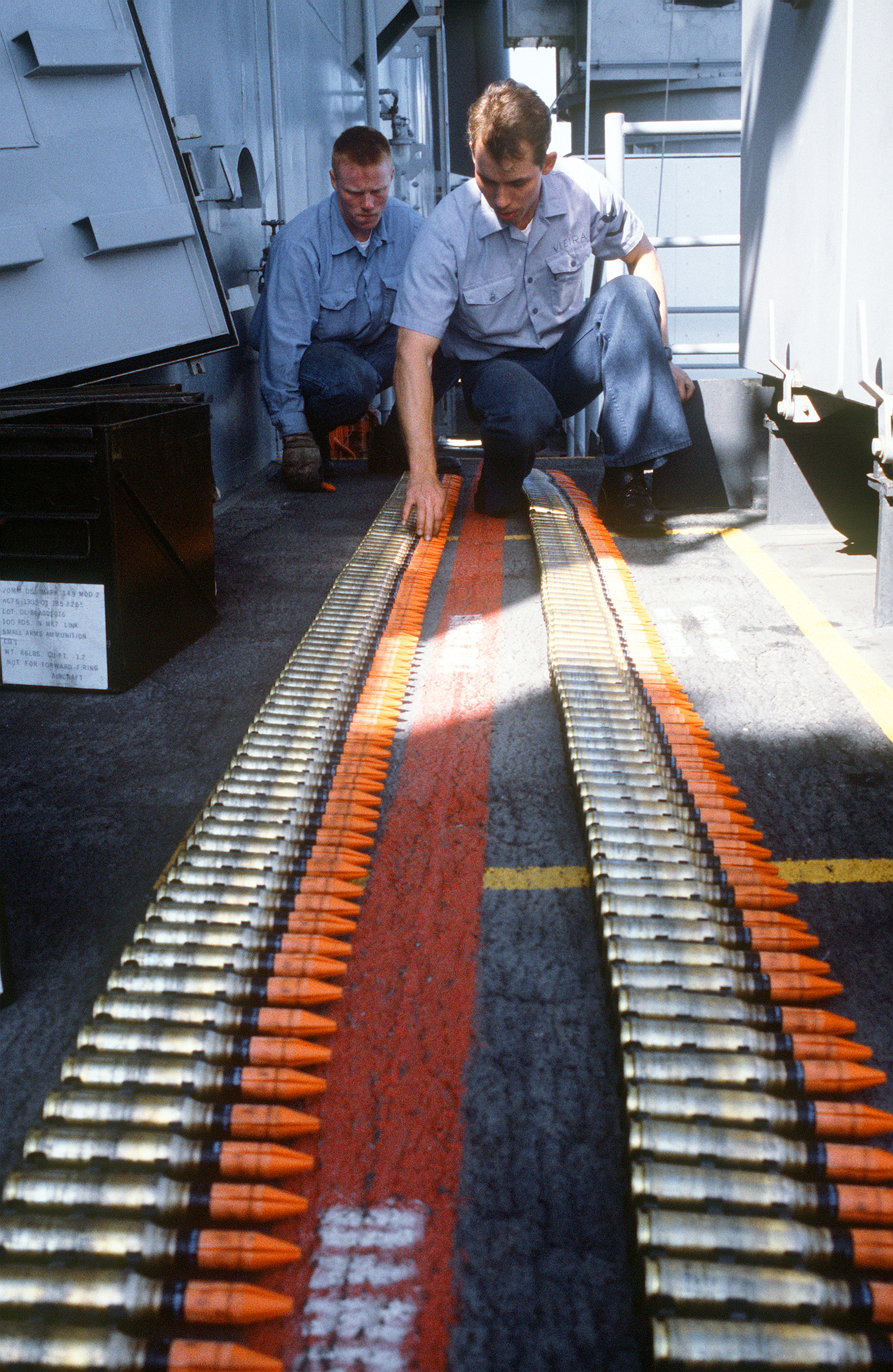 Gunner's mates inspect linked belts of Mark 149 Mod 2 20mm ammunition before loading it into the magazine of a Mark 16 Phalanx close-in weapons system aboard the battleship USS MISSOURI (BB-63). (Uploader's note, those are probably Firecontrolman, the maintainers of Phalanx, not Gunners mates.)